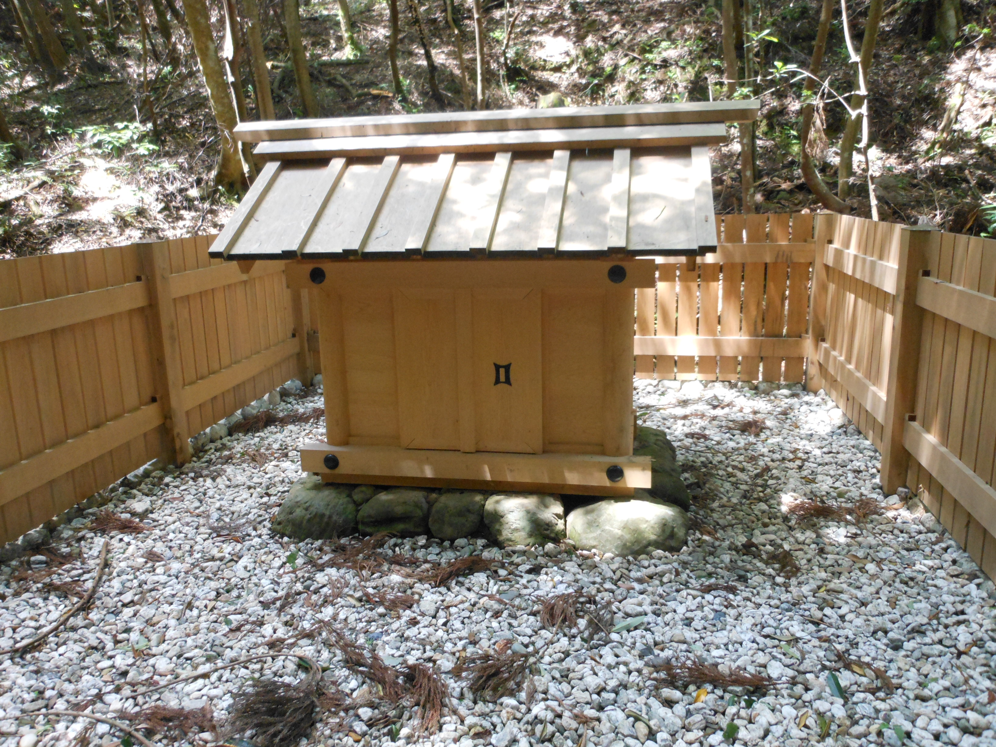 This is the Shimo-no-Mii-no Shrine, which is located in Toyokawa-cho, Ise, Mie, Japan.